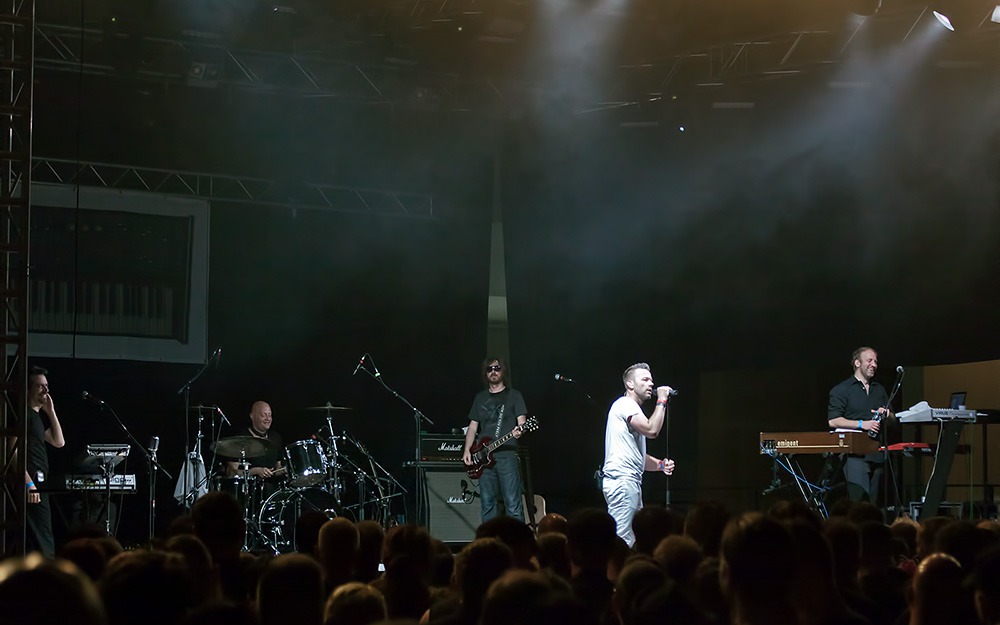 Camouflage on stage WGT 2011 in Lipsia